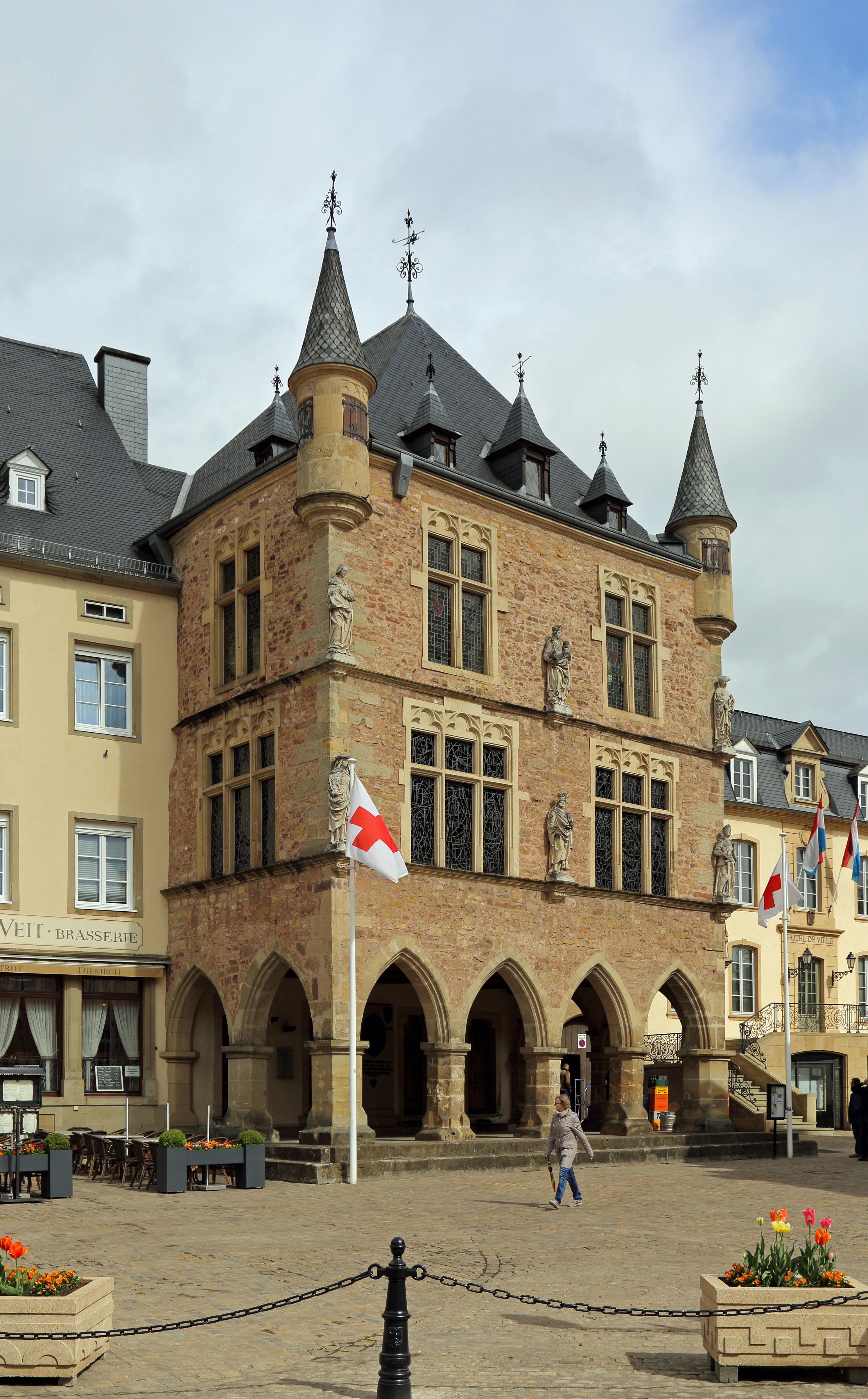 Echternach (Grand Duchy of Luxembourg): the Denzelt (former sheriff's house)